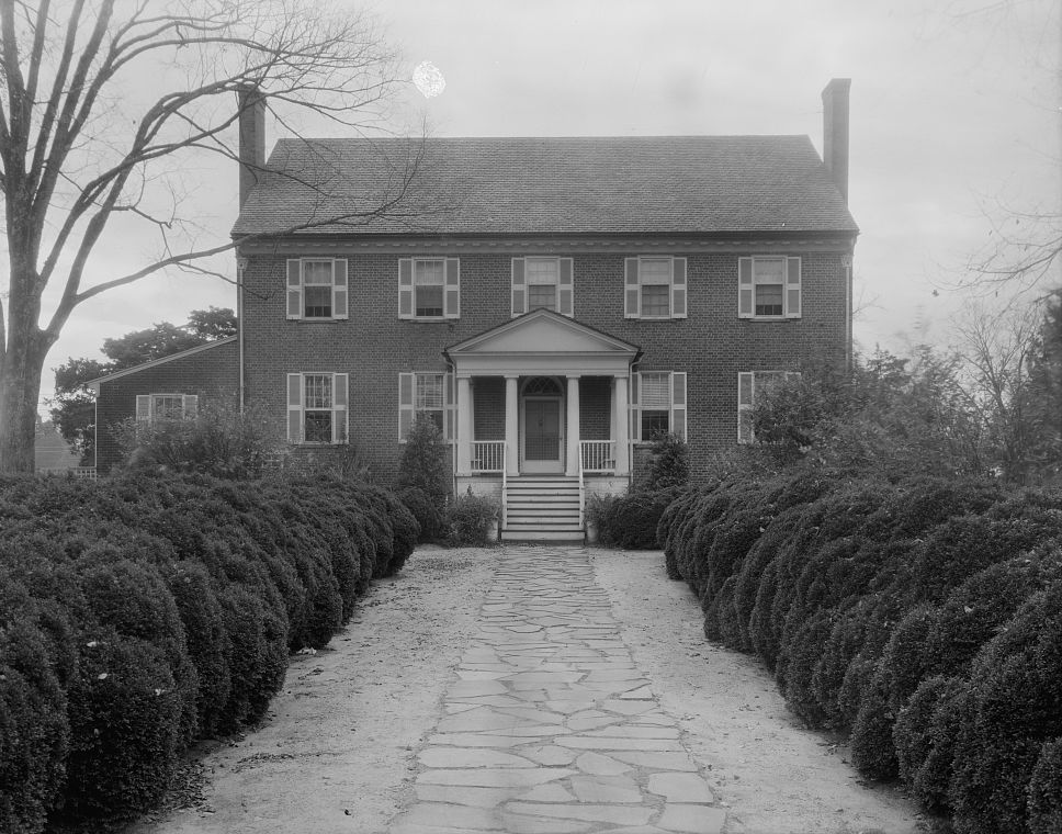 "Dan's Hill," State Route 1011 vicinity, Danville vicinity, Pittsylvania County, Virginia. Black and white photographic 8 x 10 negative by the American photographer and photojournalist Frances Benjamin Johnston, circa 1930-1939. Photograph forms part of the Johnston archives at the Library of Congress, donated to the Library in perpetuity by the photographer, hence there are no restrictions on publication. Image courtesy of the Prints and Photographs Division, Library of Congress, Washington, D.C.